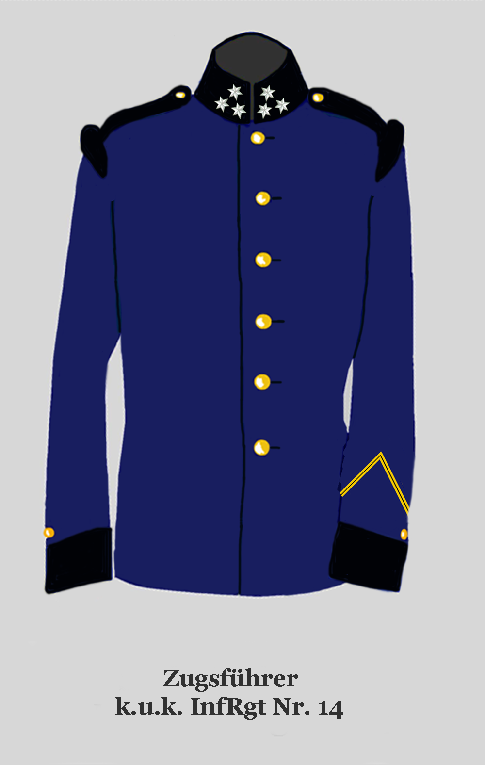 Sergeant of the k.u.k hungarian 14th Infantry Regiment. Black identification color and yellow buttons. More than three years in service.)